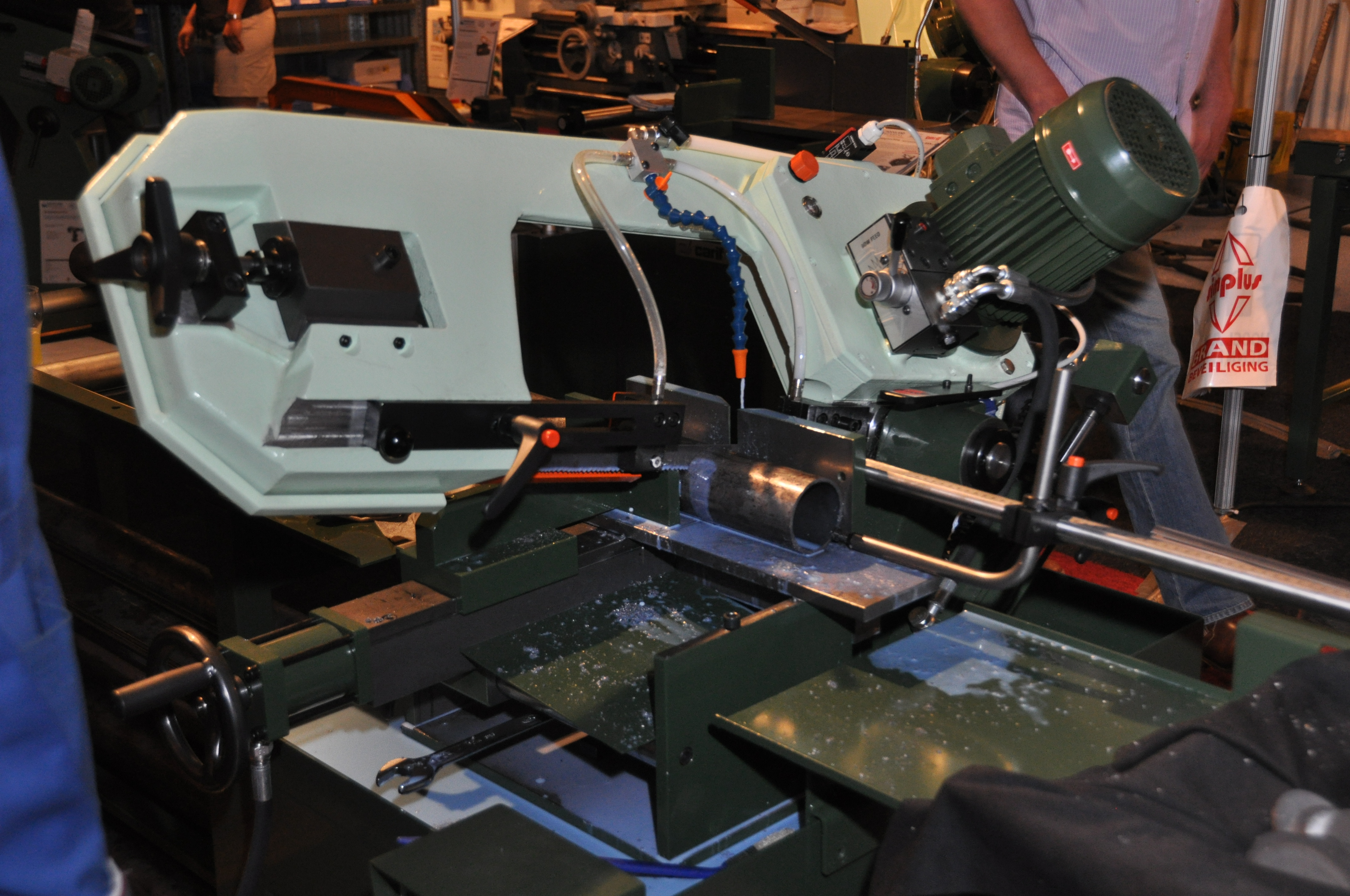 Construction & shipping industry 2010